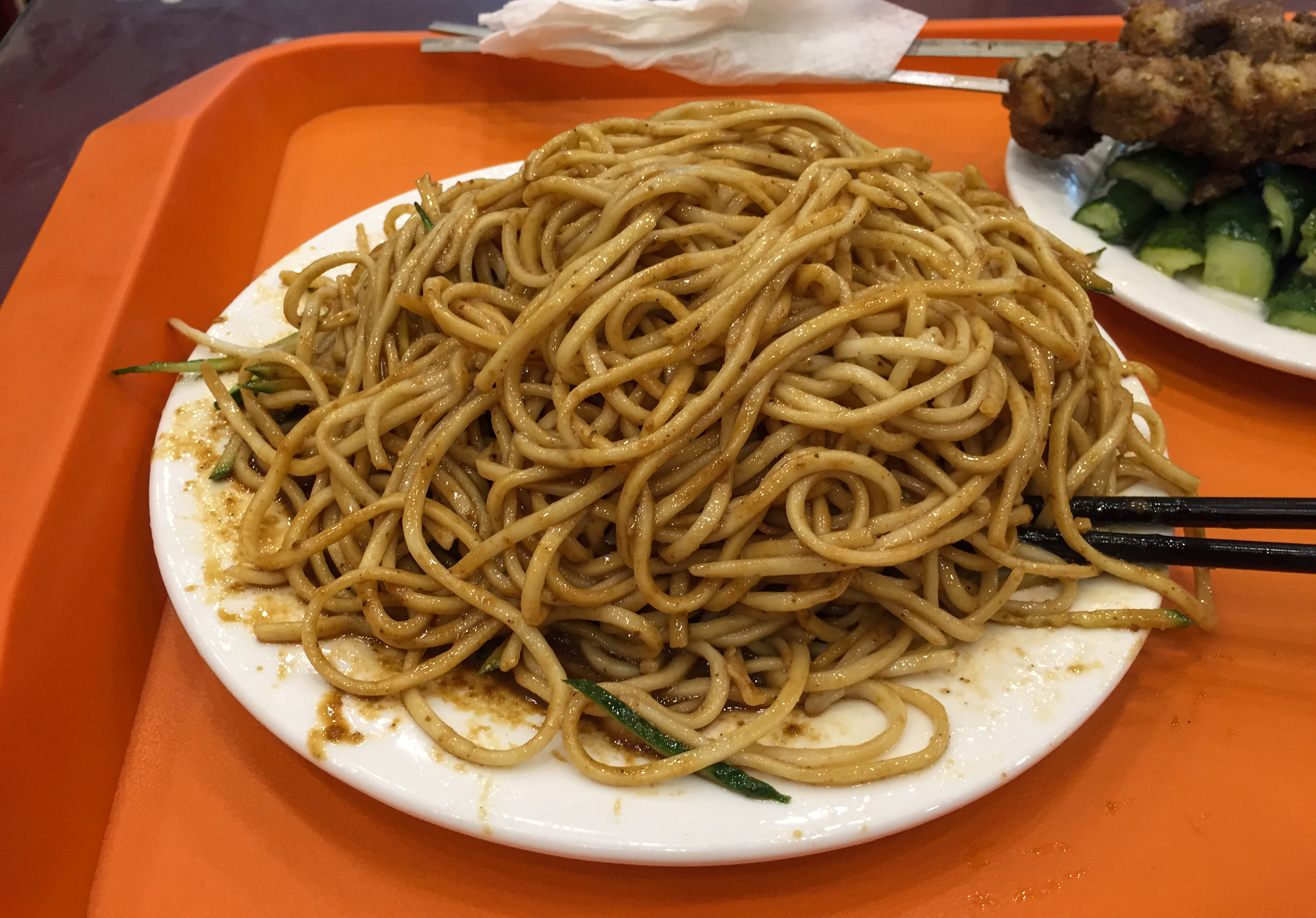 Summer solstice matters in China: Noodles are required, because of new wheat. This example is sold for CNY12 at Xinjiekou.